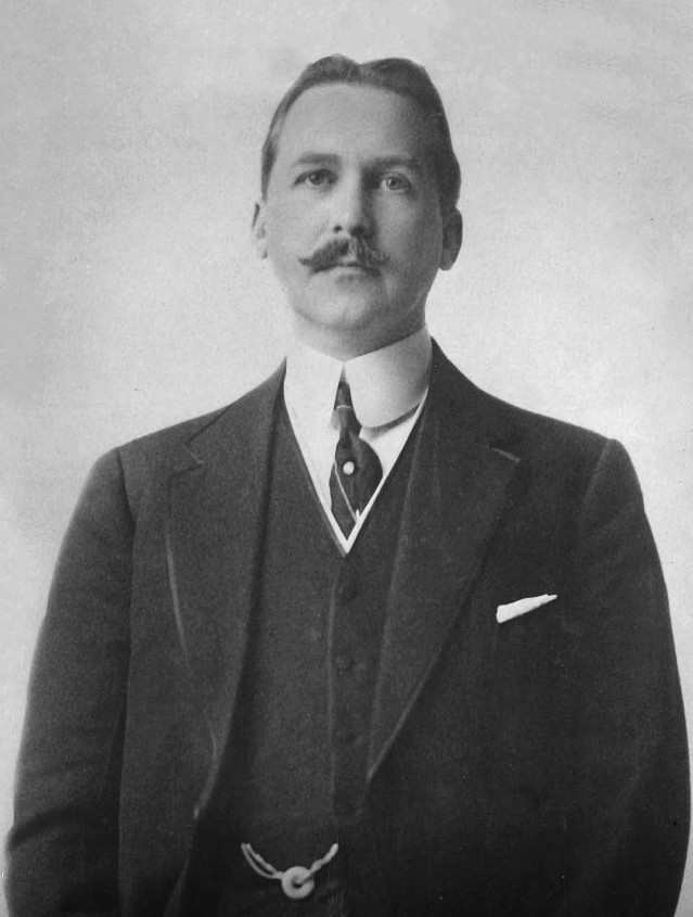 monochrome photograph portrait of Albert Herter